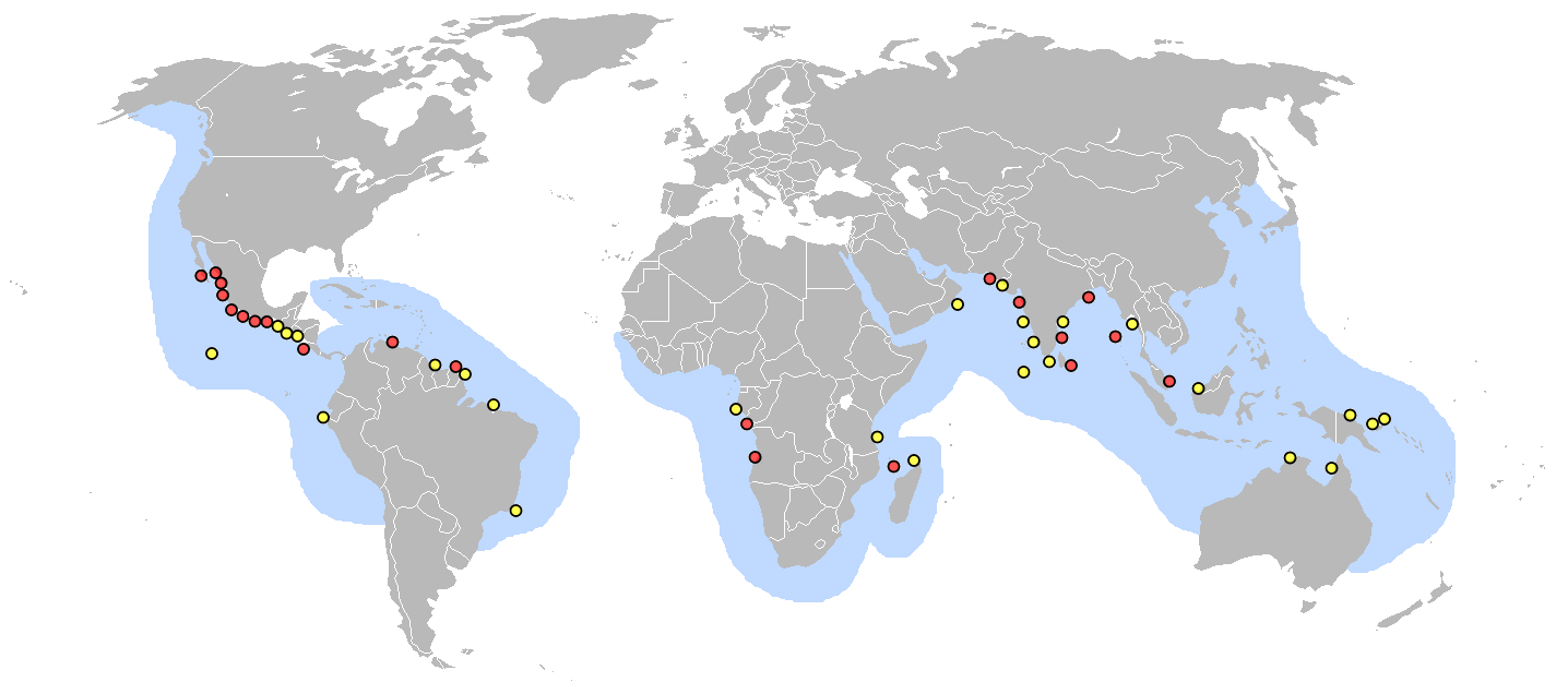 Nesting location of Olive Ridley Turtle : red dot = major nesting locations, yellow dot=minor nesting locations